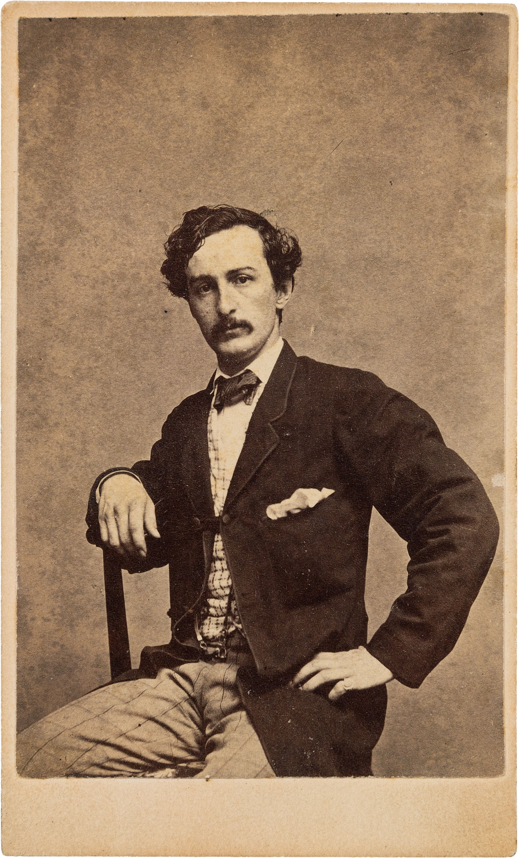 Carte de Visite of a casual seated pose of John Wilkes Booth with one arm resting on the back of the chair and the other resting on his hip